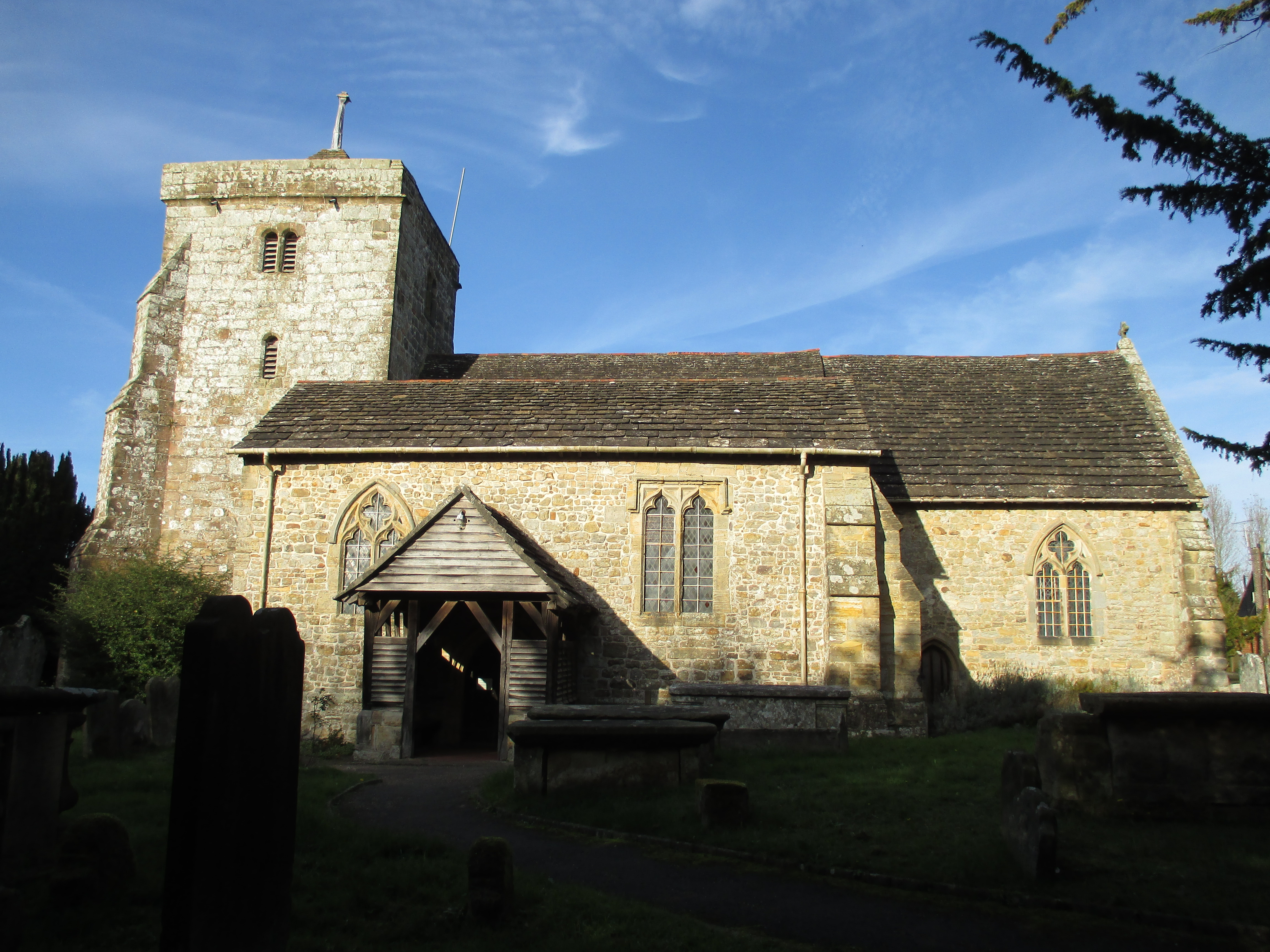 St. Peter's Church, Ardingly, West Sussex, seen from the south.